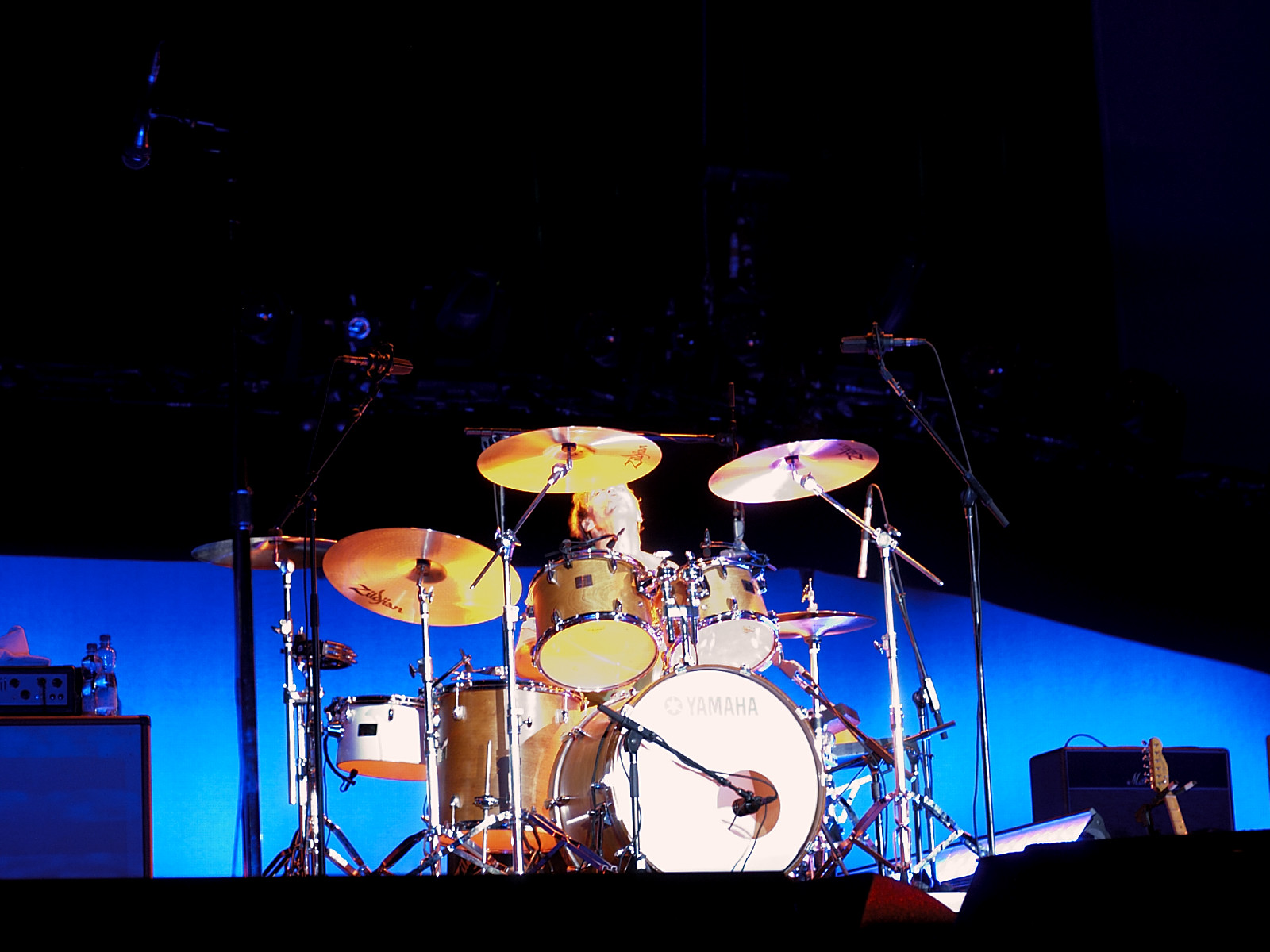 Matt Cameron drum solo, "Even Flow"